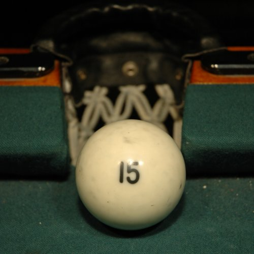 Russian billiard ball, demonstrating how tight the pockets are in the game of W:Russian pyramid.